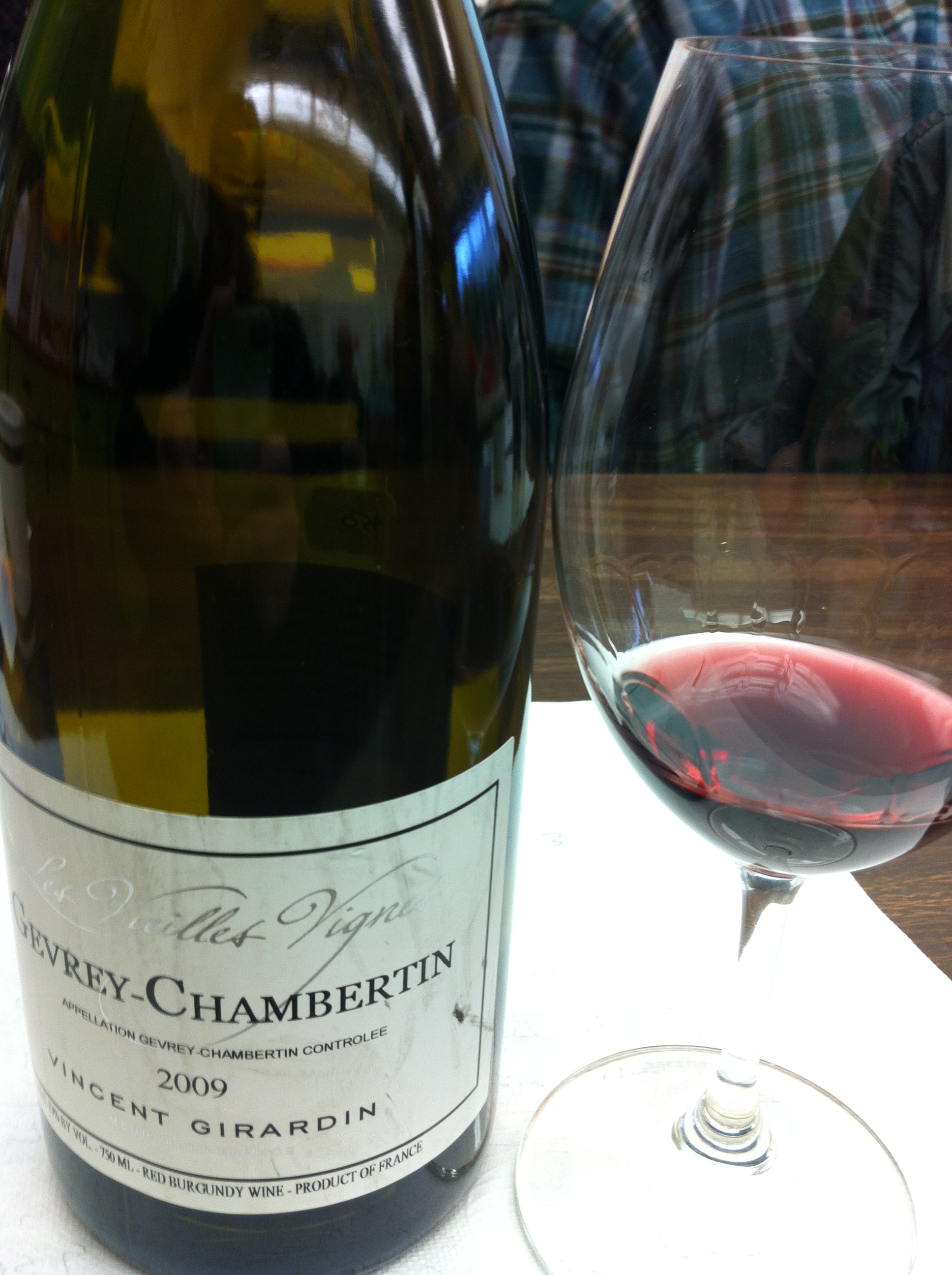 French burgundy wine made from the Pinot noir grape.